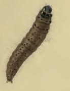 Stainton’s Natural History of the Tineina (1855–1873): Caryocolum fraternella